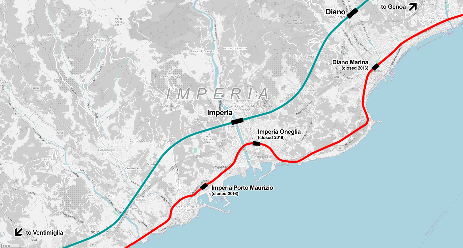 Map showing the route of the Genoa–Ventimiglia railway as it passes through Imperia, with the old line and the new line, with old and new stations This map may be incomplete, and may contain errors. Don't rely solely on it for navigation.